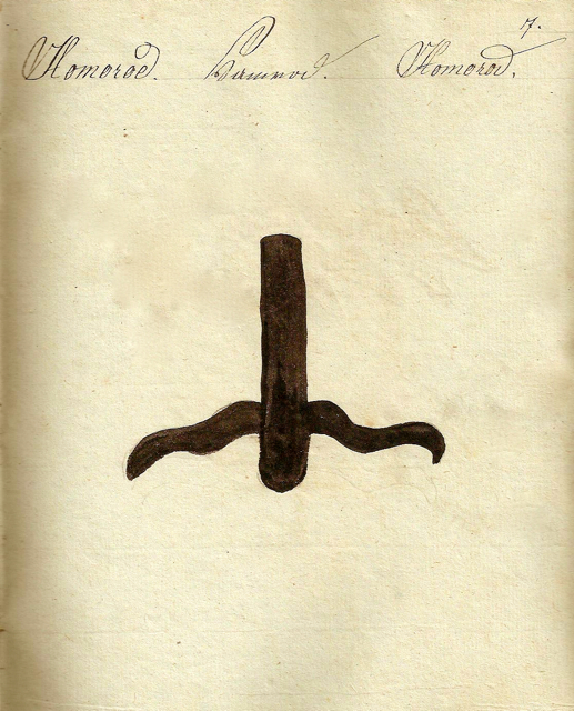 Cattle brand of Hamruden/Homorod/Homoród in Transylvania